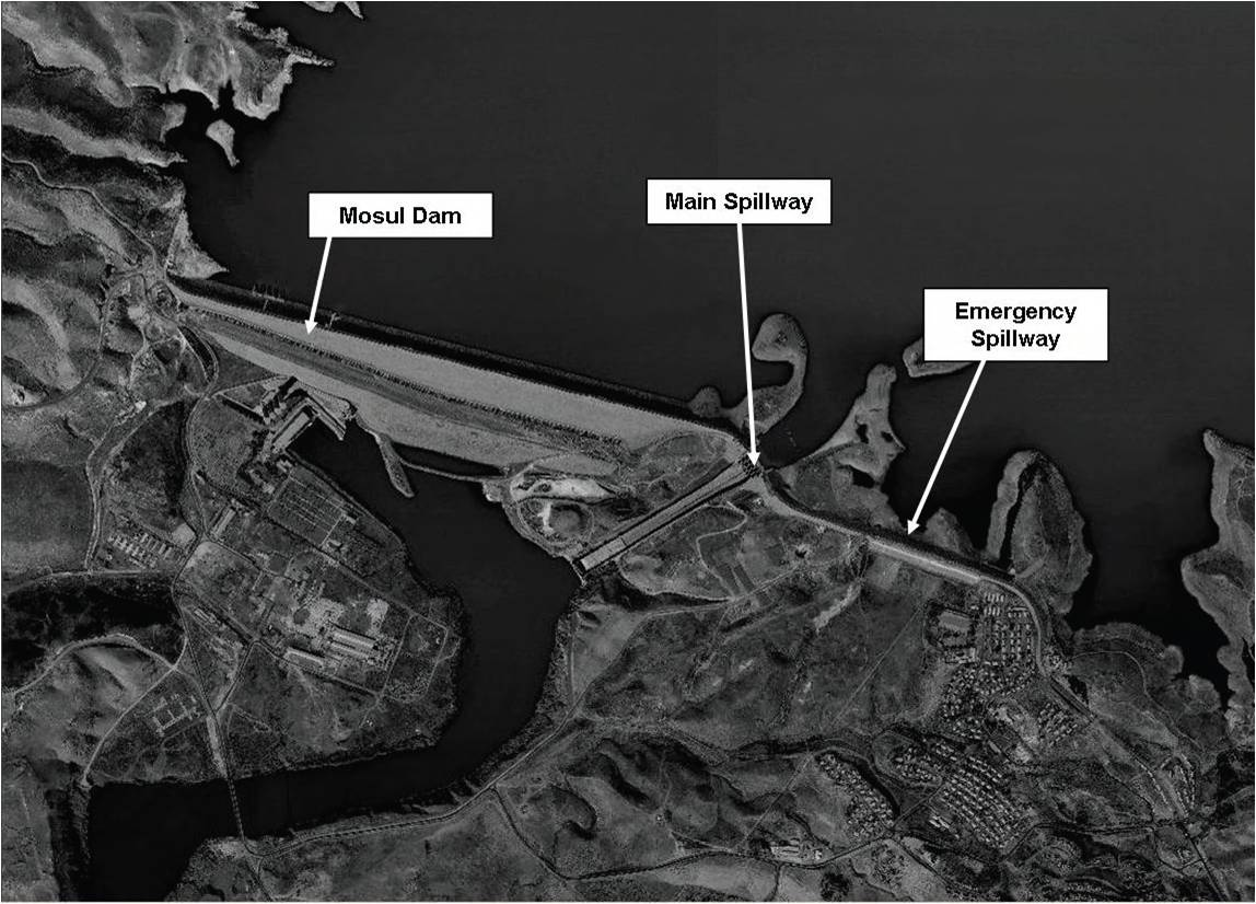 Overhead, black and white